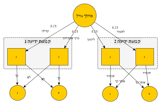 game-theory - information set example - 1 player game.